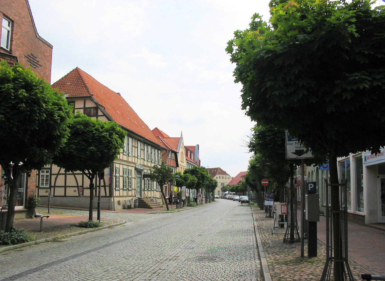 Street Lange Straße in Hagenow, district Ludwigslust-Parchim, Mecklenburg-Vorpommern, Germany